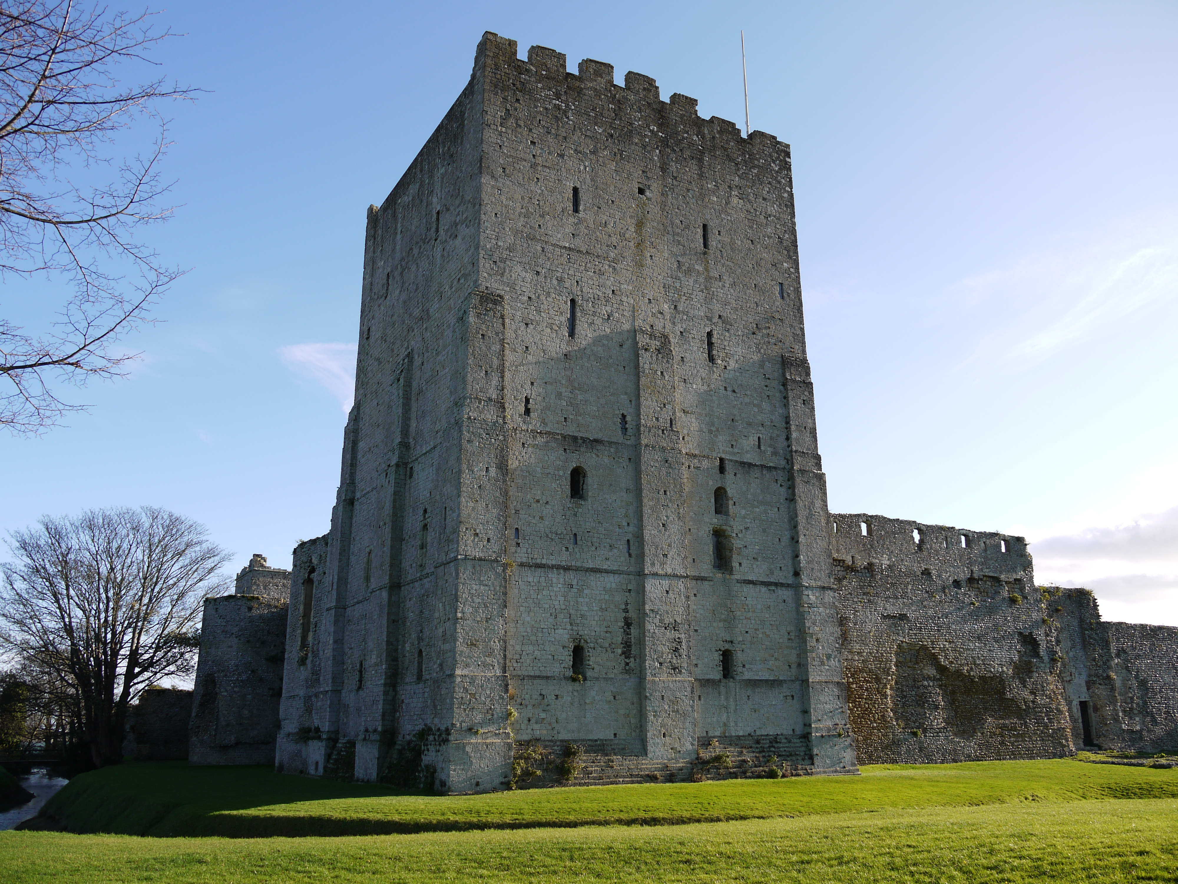 Photo of the keep of Portchester castle in winter. Castle in this section is mostly medieval.